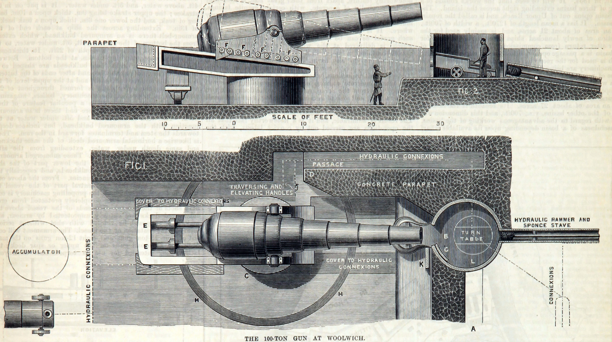 Engravings showing right elevation and plan views of Armstrong RML 17.72-inch "100 ton" gun in emplacement and loading arrangements.